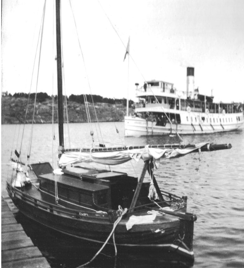 Gaff rig boat from The Swedish west coast